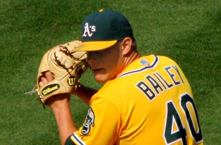 Andrew Bailey pitching in 2011